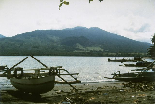 Tongkoko volcano, seen here from Lembe Island to the east, is a broad, 1149-m-high stratovolcano capped by a large summit crater. The lava dome Batu Angus, which formed in an eruption in 1801, can be seen on the east flank of the volcano in the center of the photo. Gunung Dua Saudara National Park, a noted wildlife preserve, extends from the volcanic highlands to offshore coral reefs.